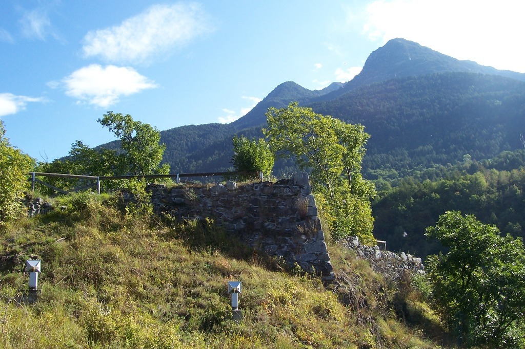 Wall .Castle of Mù. Edolo, Val Camonica